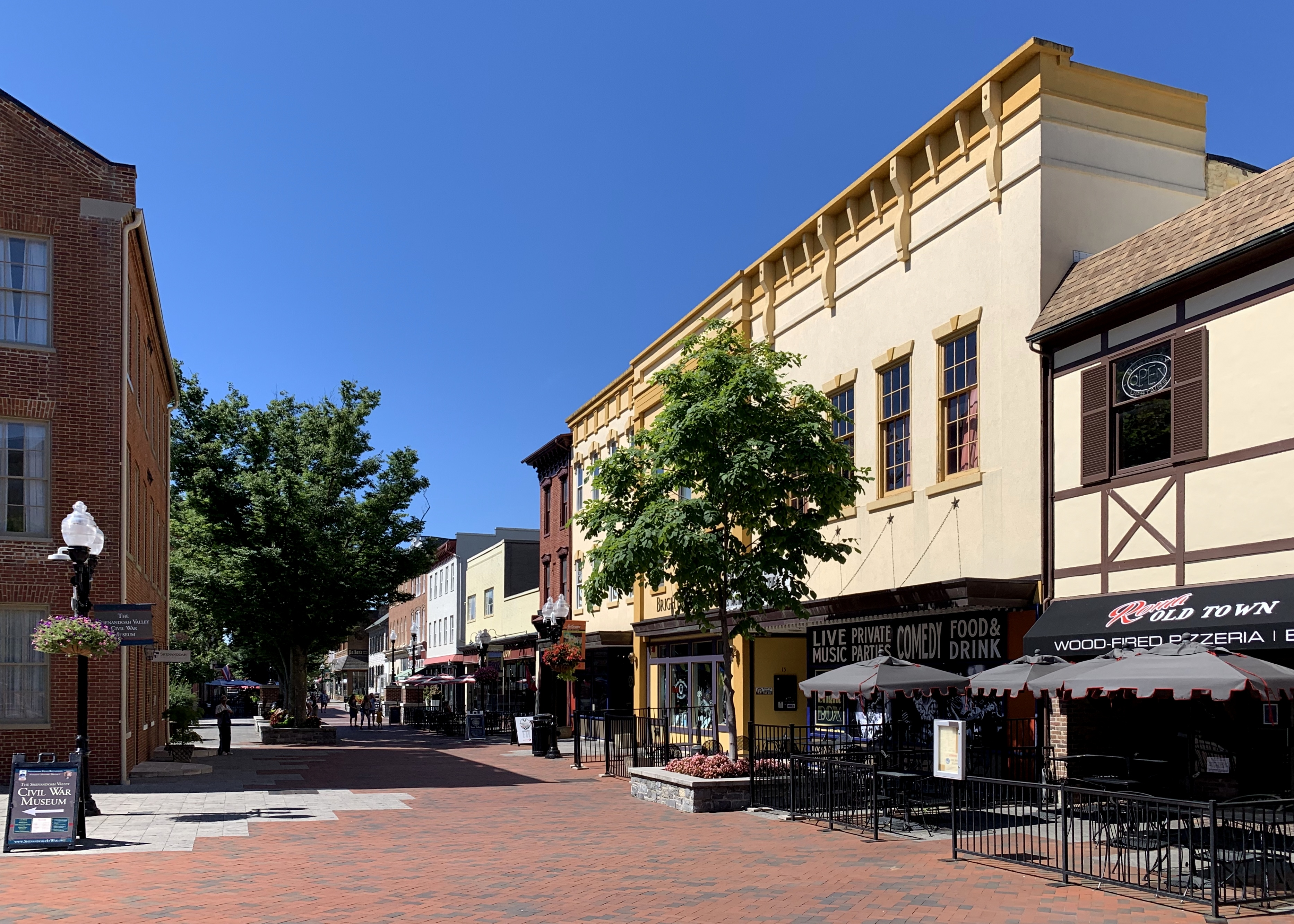 Facing south on the Loudoun Street Mall in Winchester, Virginia.